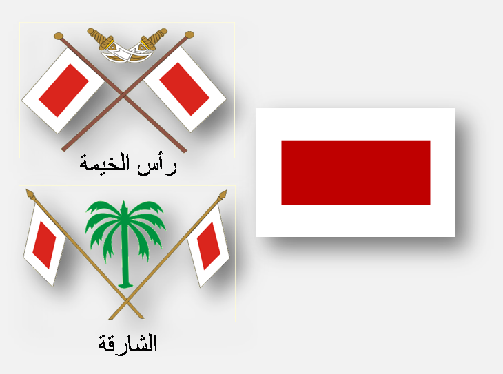 Montage of two images in Commons of &